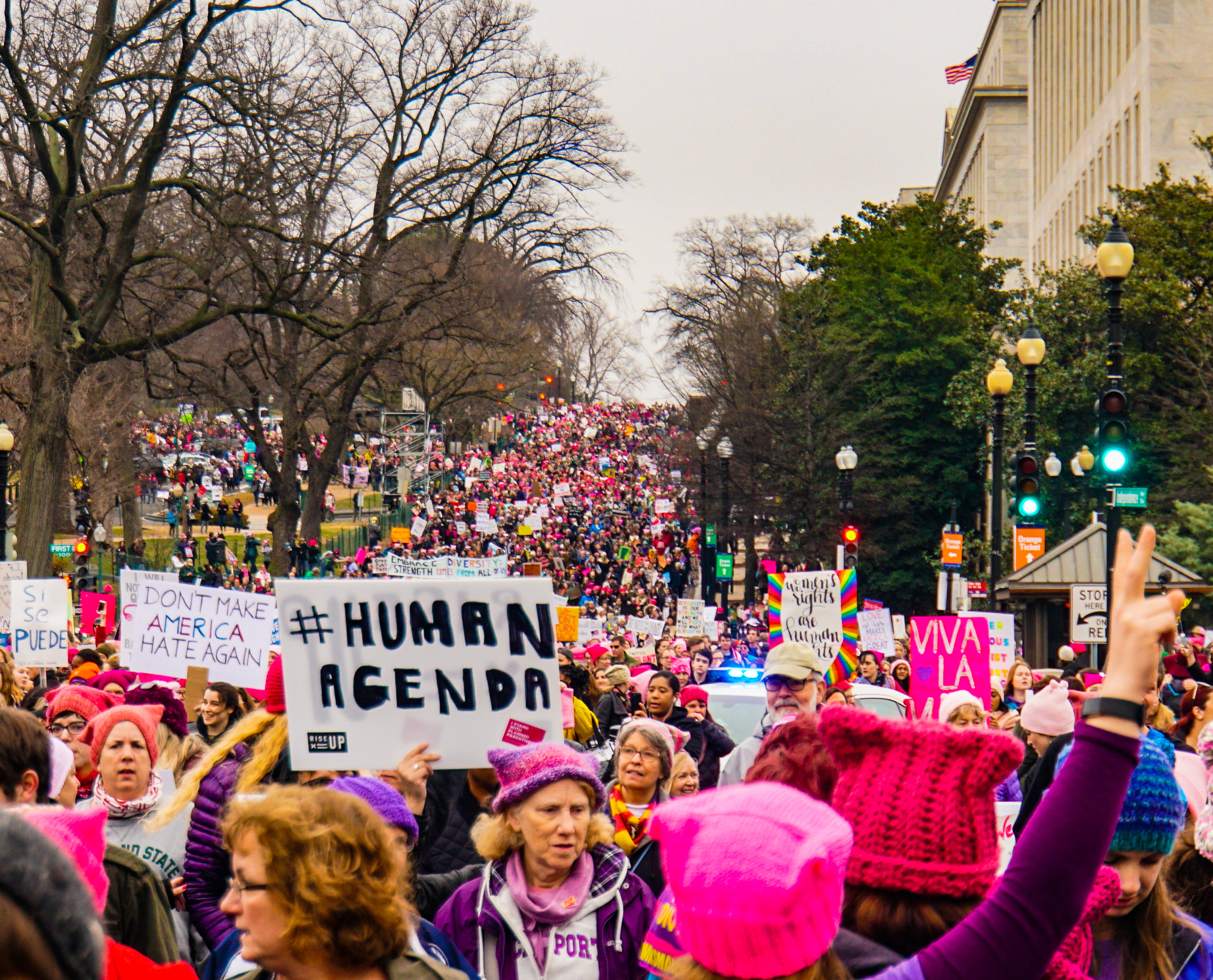 2017.01.21 Women's March Washington, DC USA 00094 Women's March on Washington